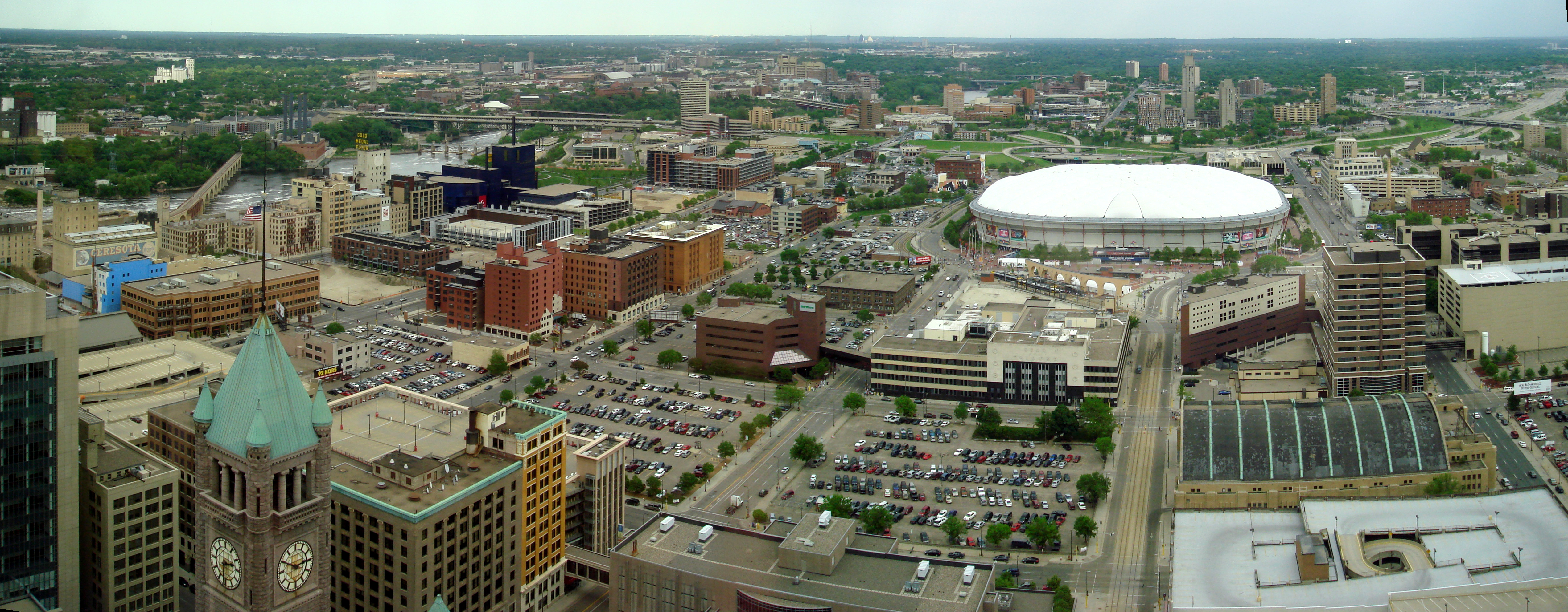 Downtown East in Minneapolis, Minnesota. The clock tower in the foreground is a part of Minneapolis City Hall; the arched bridge on the left is the Stone Arch Bridge crossing the Mississippi River; the next bridge downstream is the now collapsed I-35W Mississippi River bridge; the dark blue building is the Guthrie Theater; the stadium is the Metrodome; also in the photo is the headquarters of the Star Tribune, parts of Hennepin County Medical Center as well as several former mills.